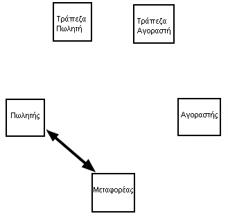 Seller consigns the goods to a carrier in exchange for a bill of lading.